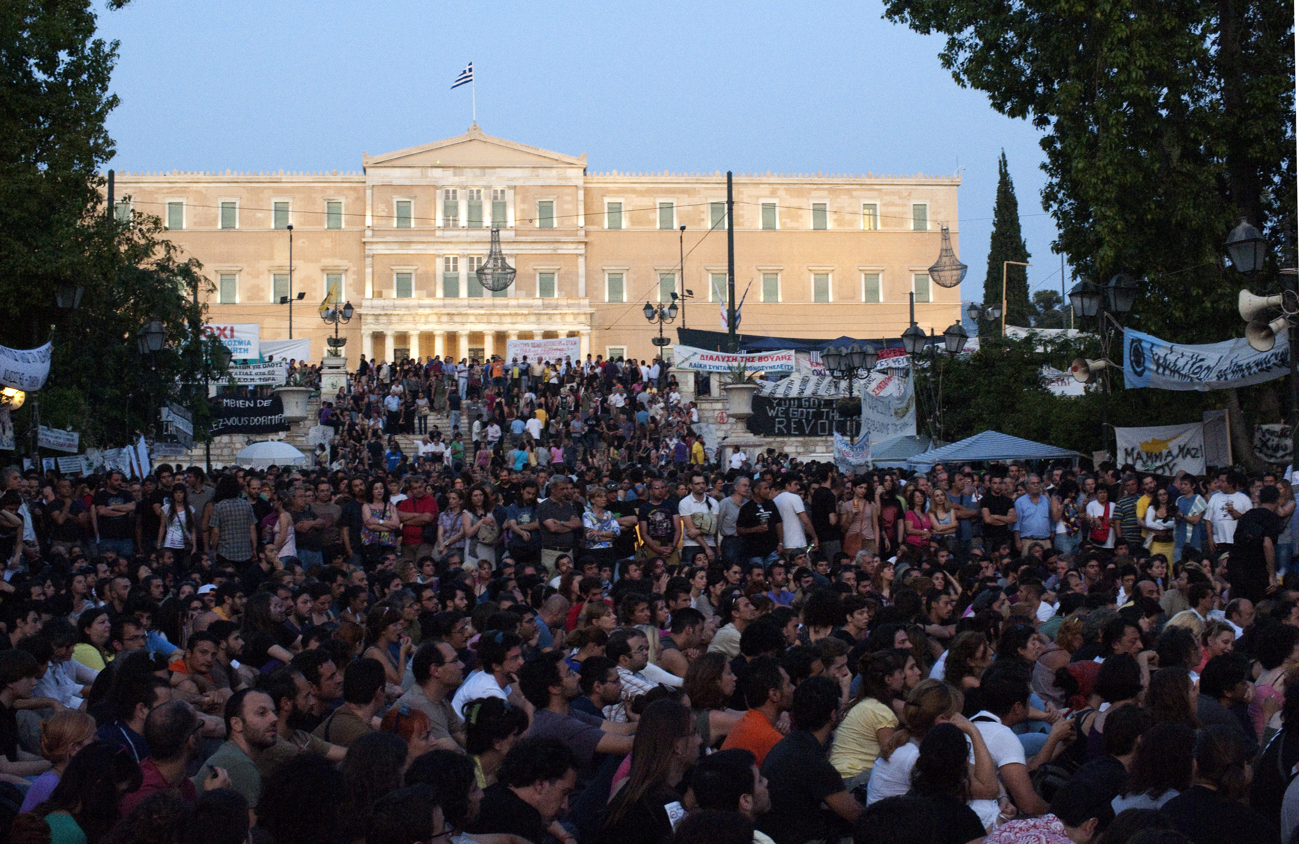 General mass of Indignados in Athens Syntagma, Greece (30 June 2011).